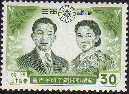 Wedding_of_Crown_Prince_Akihito_Stamp_of_30Yen